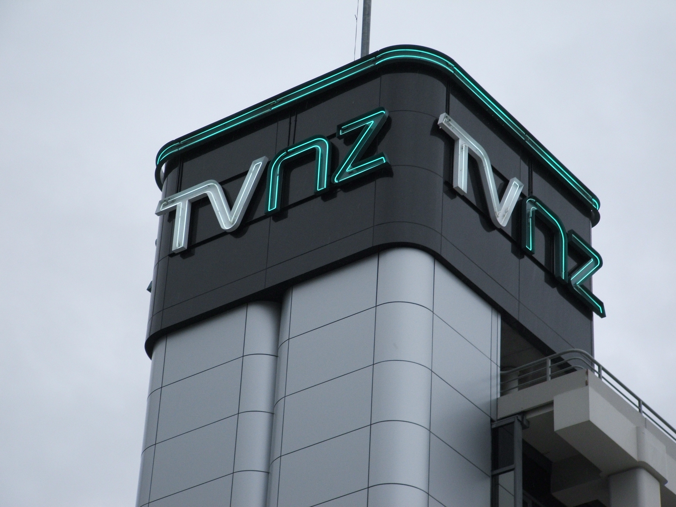 Photograph of the TVNZ HQ in Auckland, New Zealand.